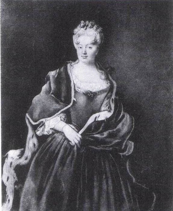 Portrait of Princess Johanna Charlotte of Anhalt-Dessau (1682-1750), wife of Philip William, Margrave of Brandenburg-Schwedt